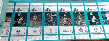 A booklet of season tickets from the Charlotte Hornets's inaugural 1988-89 season.